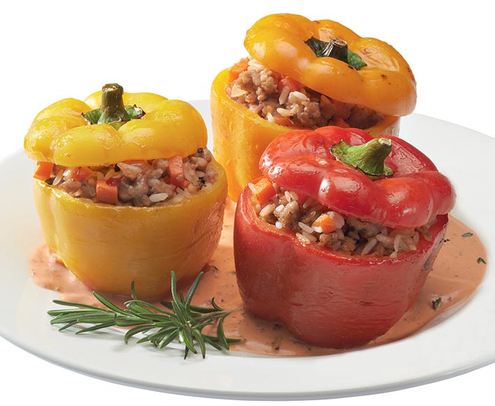 Qirim dolmasi